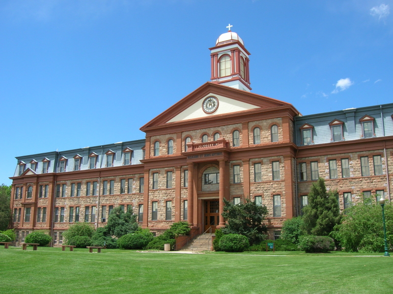 This is a photo of the Main Hall at Regis University in Denver, Colorado.